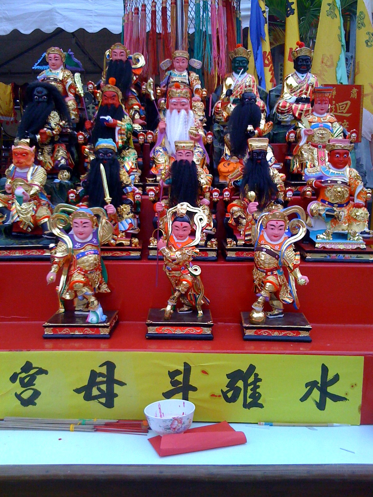 The Figurine of God's favorite photo. The shrine just made a new one in 2009.